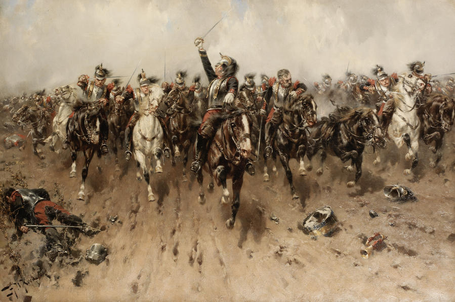 The attack